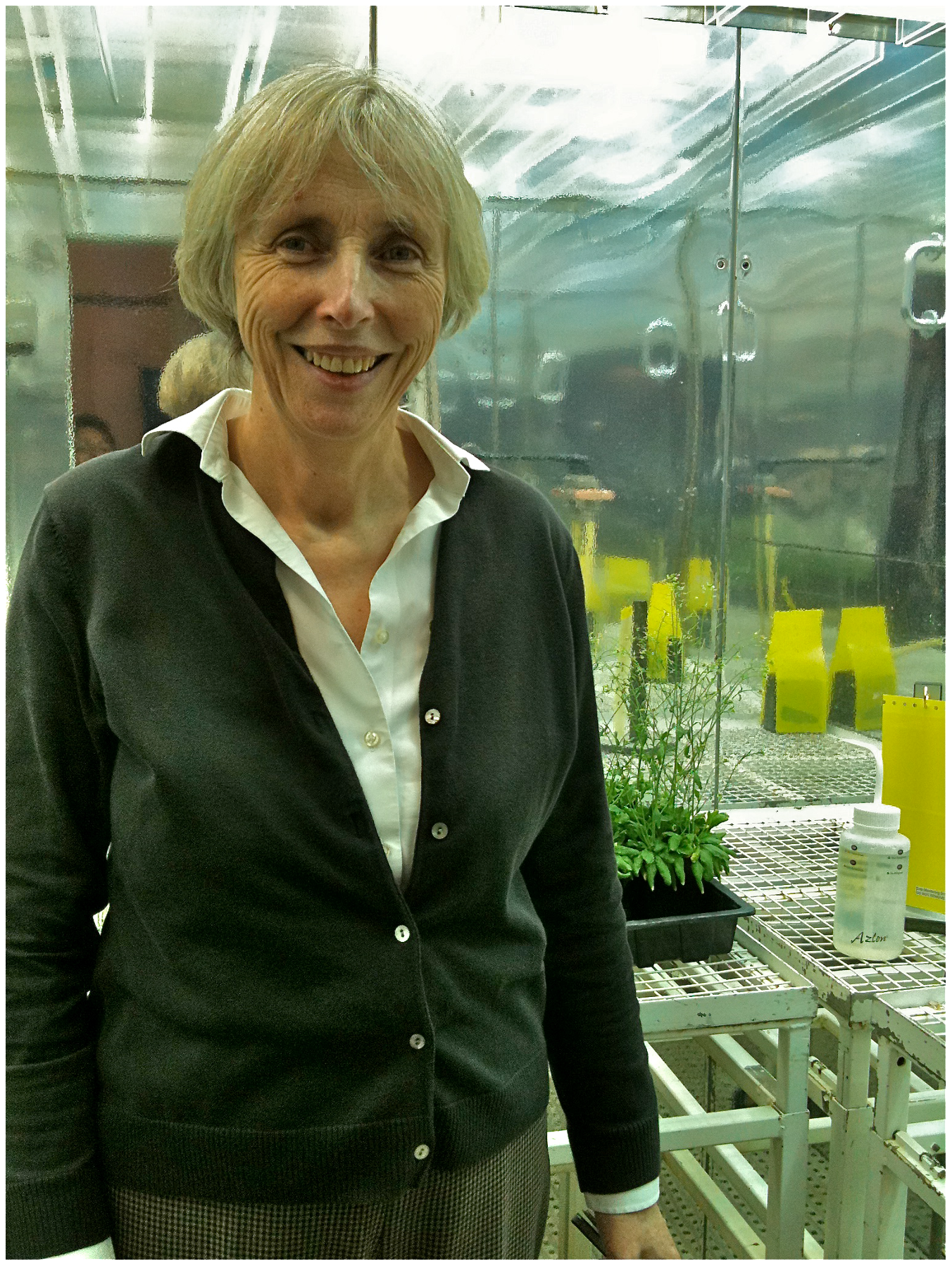 Caroline Dean. Photograph by Jane Gitschier.